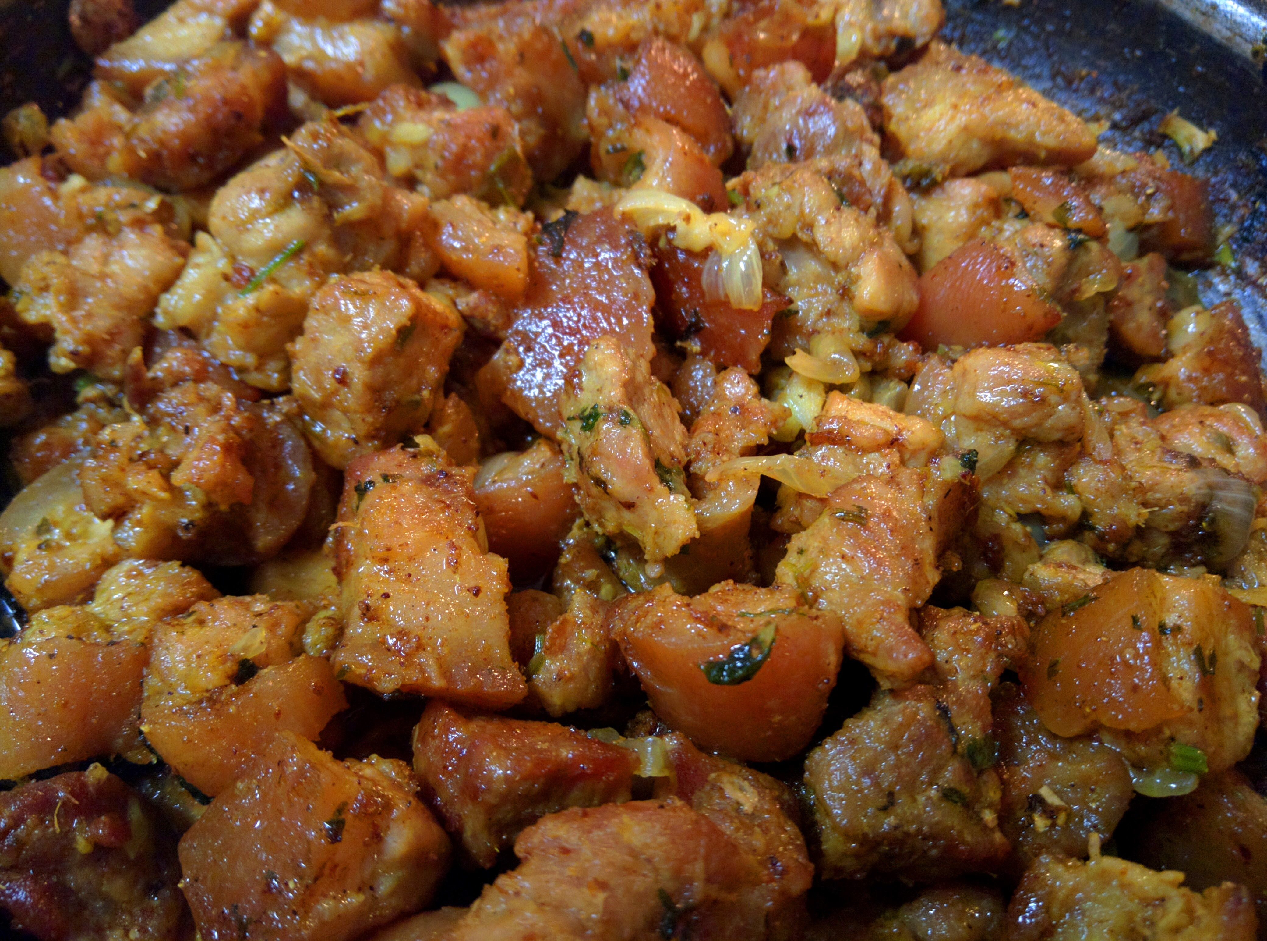 Traditional nepali pork curry stir fried and then slow cooked. The recipe includes ginger, garlic, onion, green onion, chilli powder, turmeric (optional) and indigenous herbs and spices.